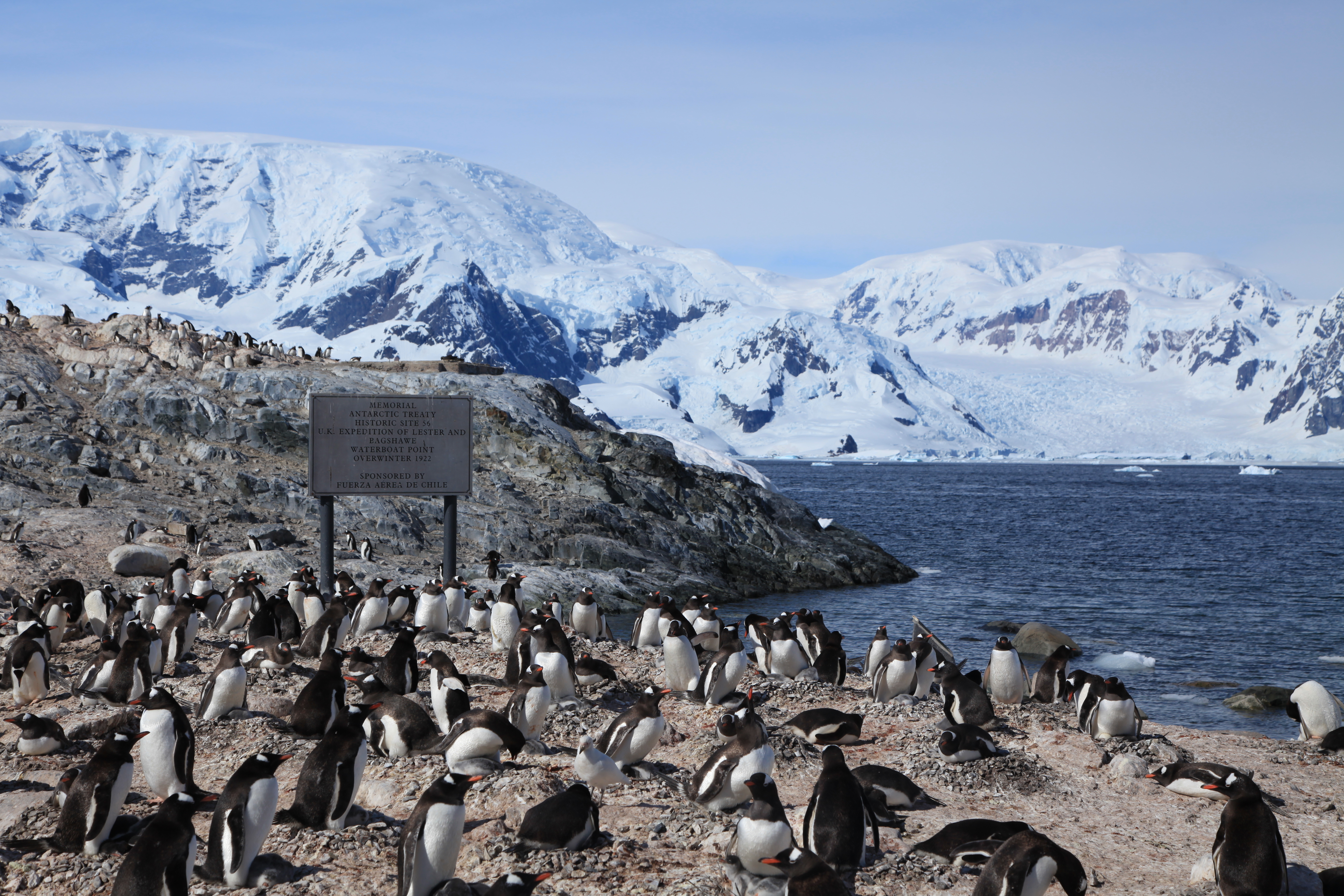 Gentoo Penguins nest around this historic site where the two British researchers Thomas W. Bagshawe and Maxime C. Lester spent a year in 1921-22.